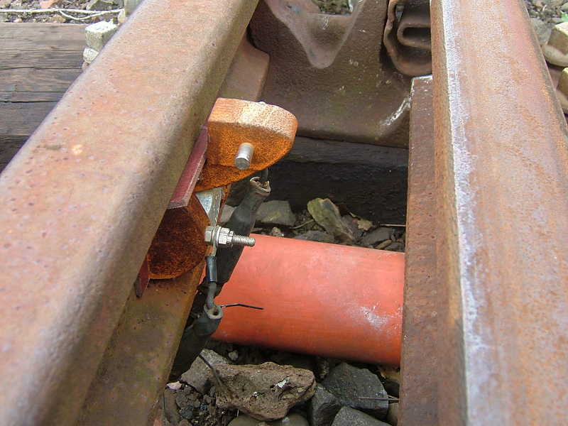 Original digital image. Signalhead 21:59, 23 January 2007 (UTC)